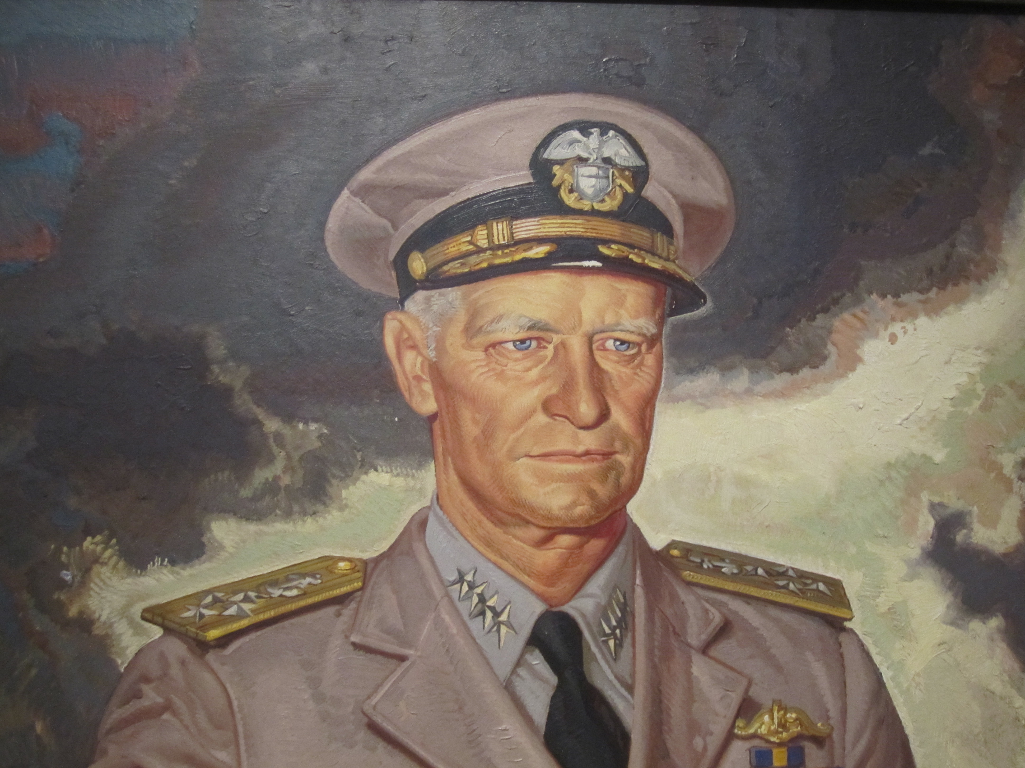 I took photo of Admiral Nimitz at National Portrait Gallery in Washington, D.C. Government-owned. Public domain. Canon camera.